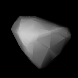 3D convex shape model of 251 Sophia, computed using light curve inversion techniques. J. Hanuš, J. Ďurech, M. Brož, B. D. Warner (June 2011). "A study of asteroid pole-latitude distribution based on an extended set of shape models derived by the lightcurve inversion method". Astronomy and Astrophysics 530: A134. ISSN 0004-6361. arXiv